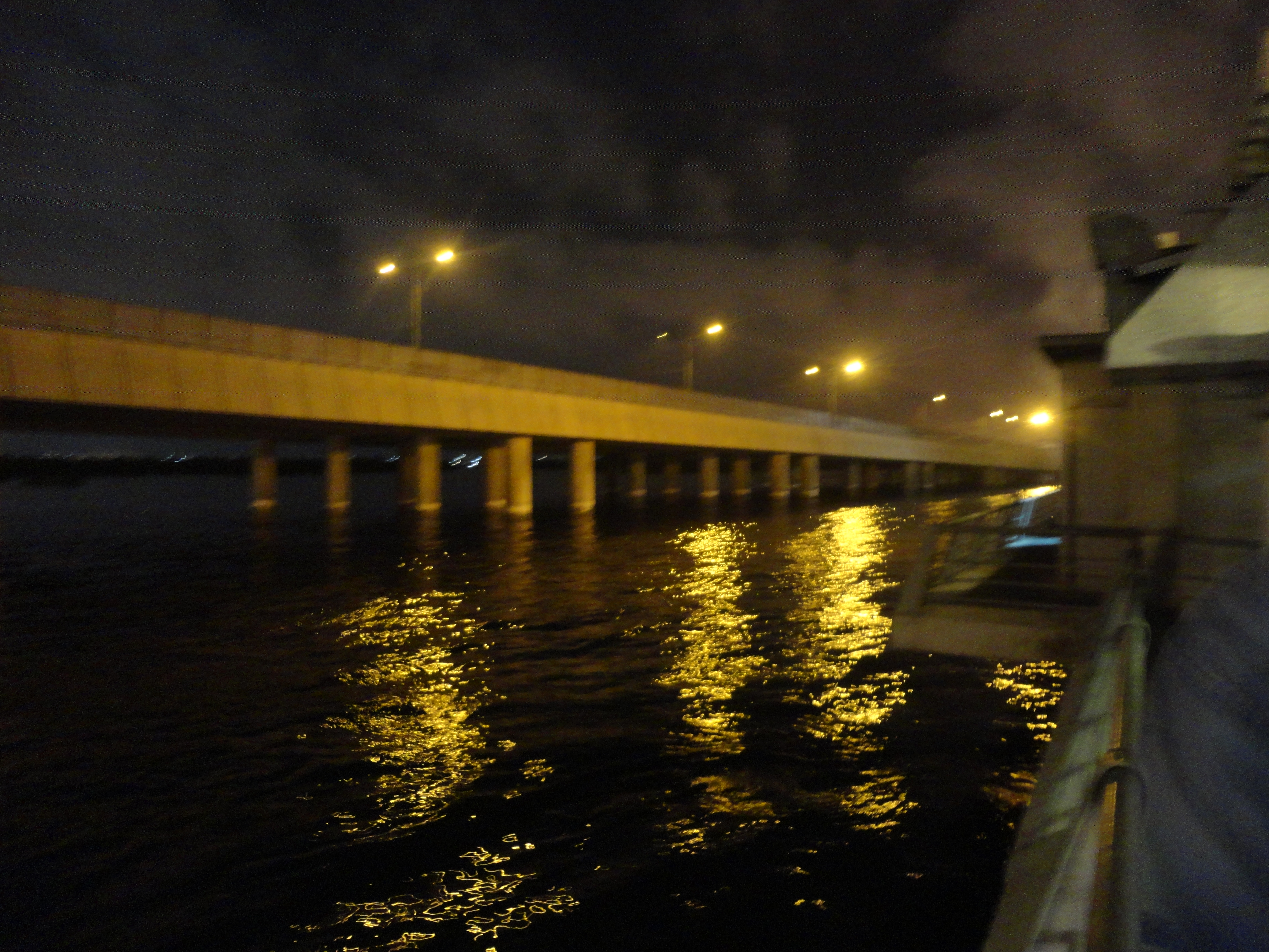 Native Jetty Bridge - view from Port Grand, Karachi, Pakistan.